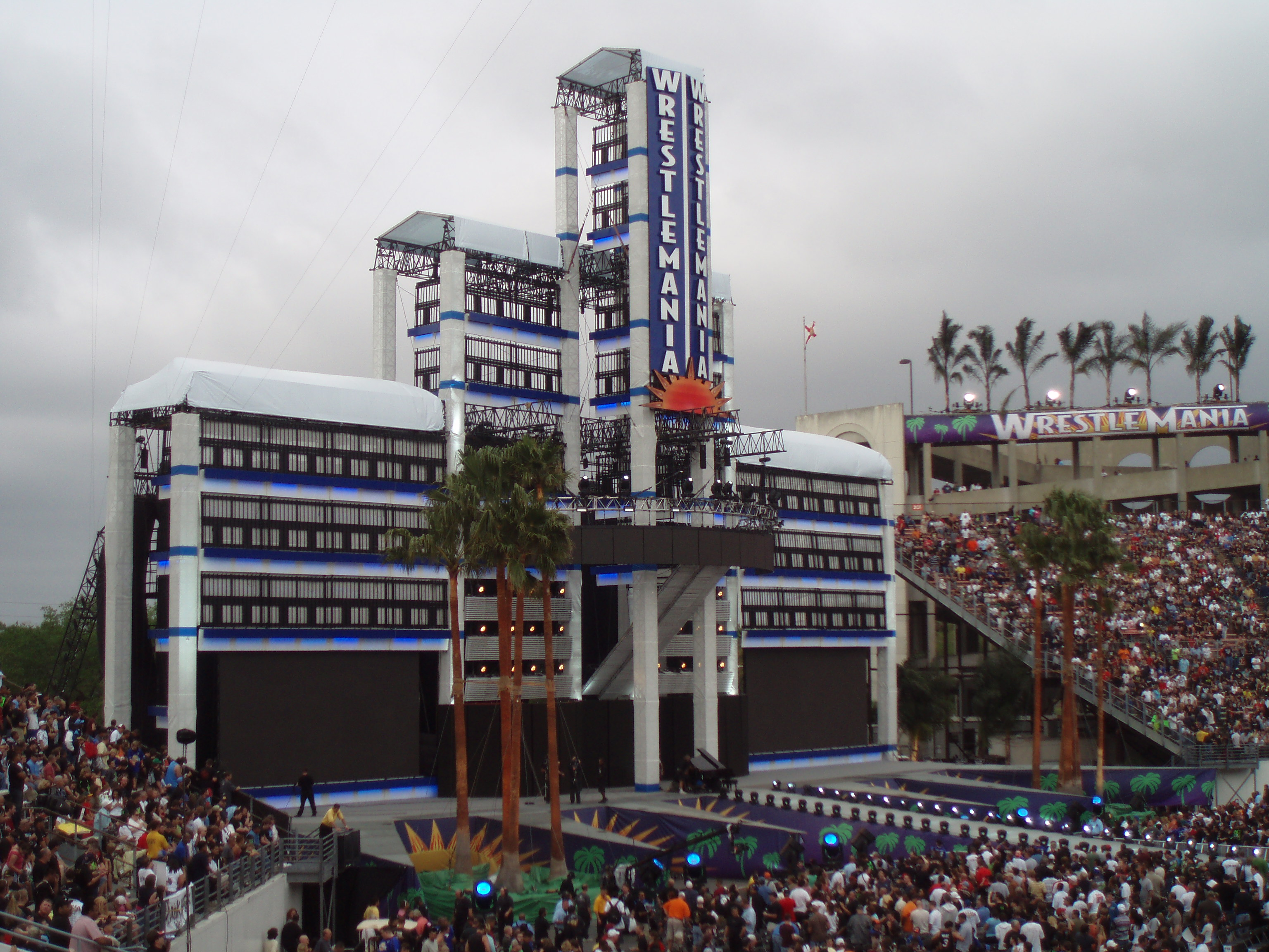 Stage @ WrestleMania XXIV